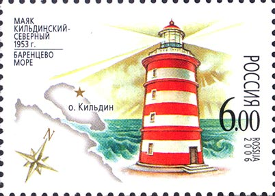 Stamp of Russia. The lighthouses of the Barentsevo sea and of the White sea